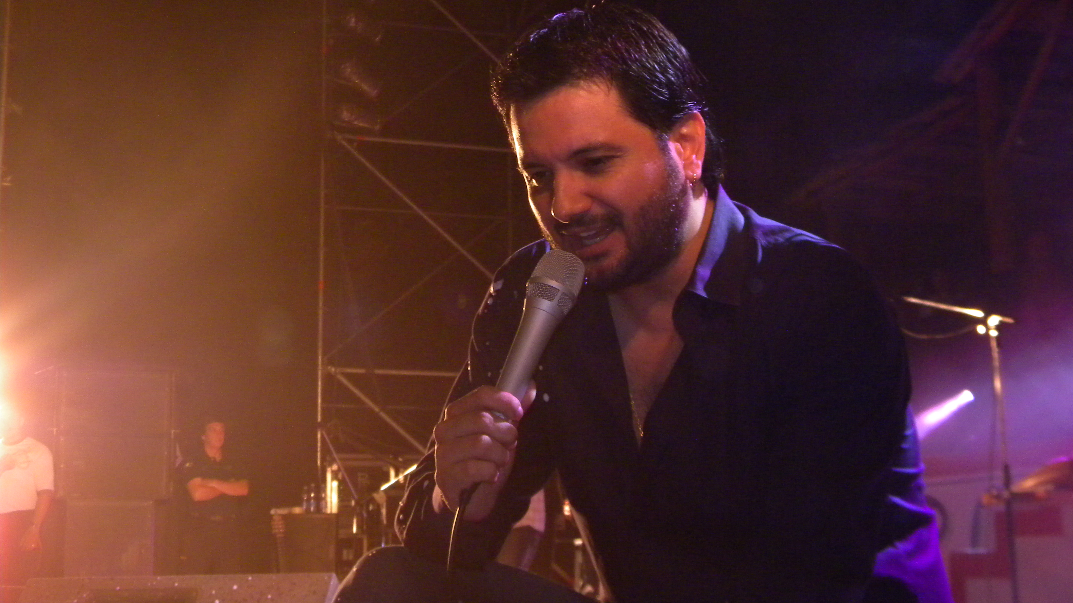 Jorge Rojas in the Chayero Sanagasteño Festival 2011 (Sanagasta, La Rioja, Argentina)